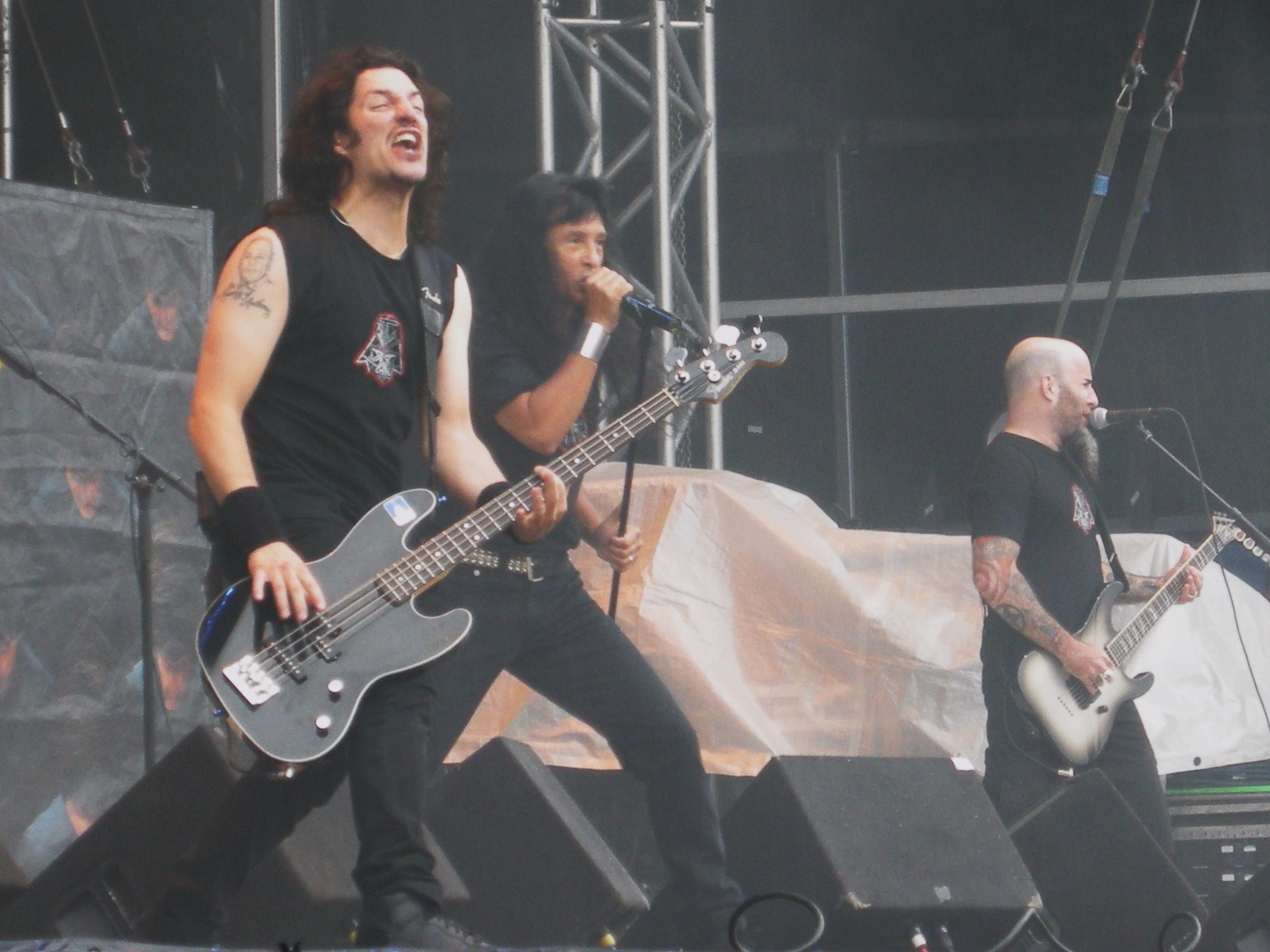 Anthrax (Frank Bello, Joey Belladonna, Scott Ian) at Sonisphere Festival, Stockholm Sweden 2010